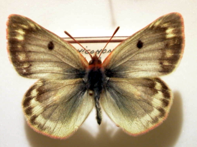 Colias phicomone, male, mounted